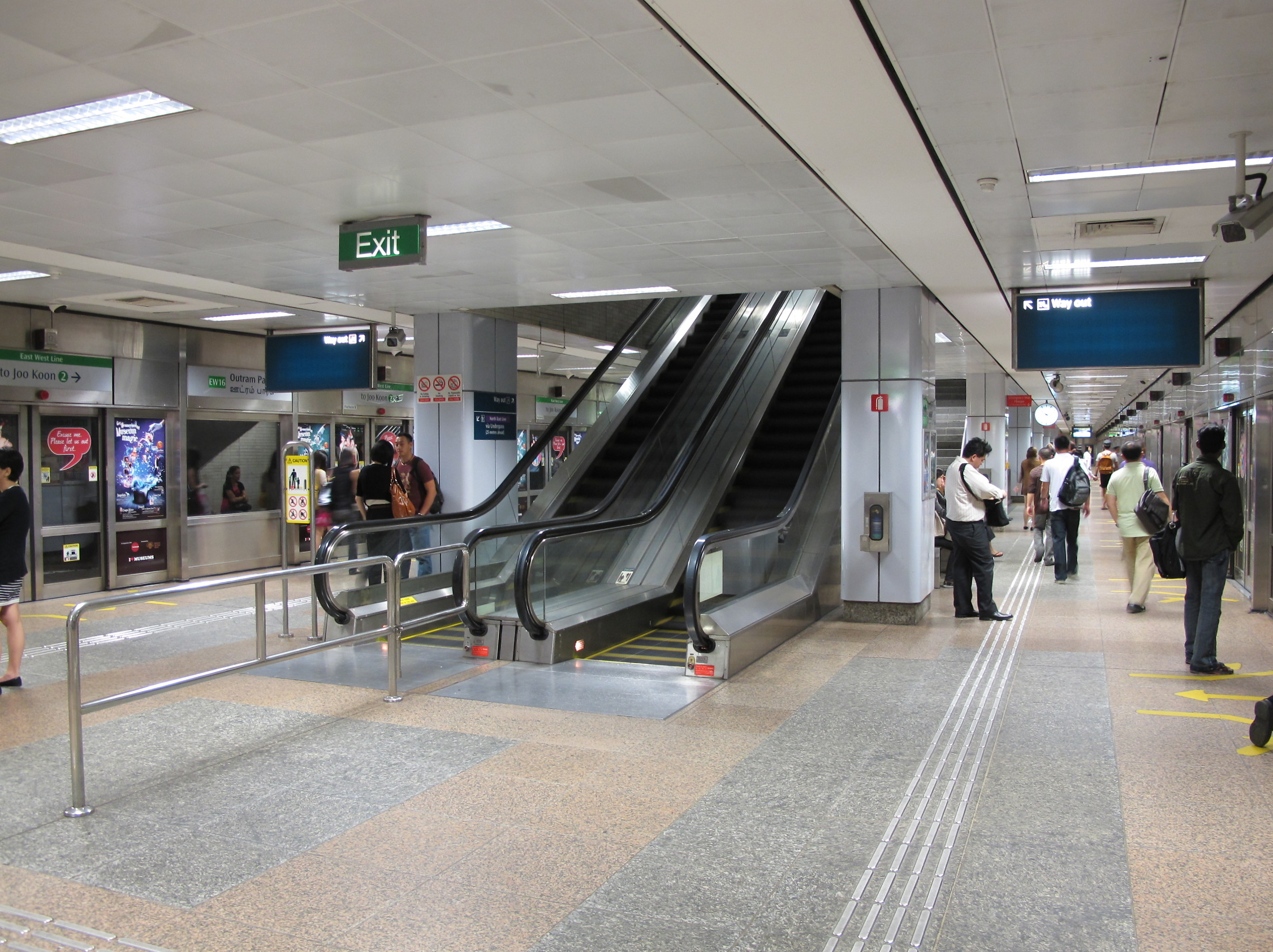 Outram Park Station Platform East West Line Platform